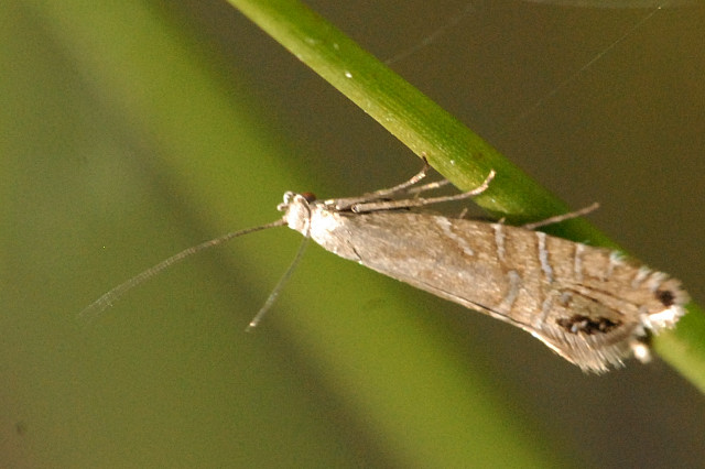 Glyphipterix thrasonella from Commanster, Belgian High Ardennes .